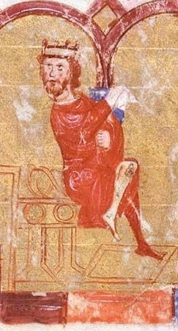 Byzantine Emperor Basil II